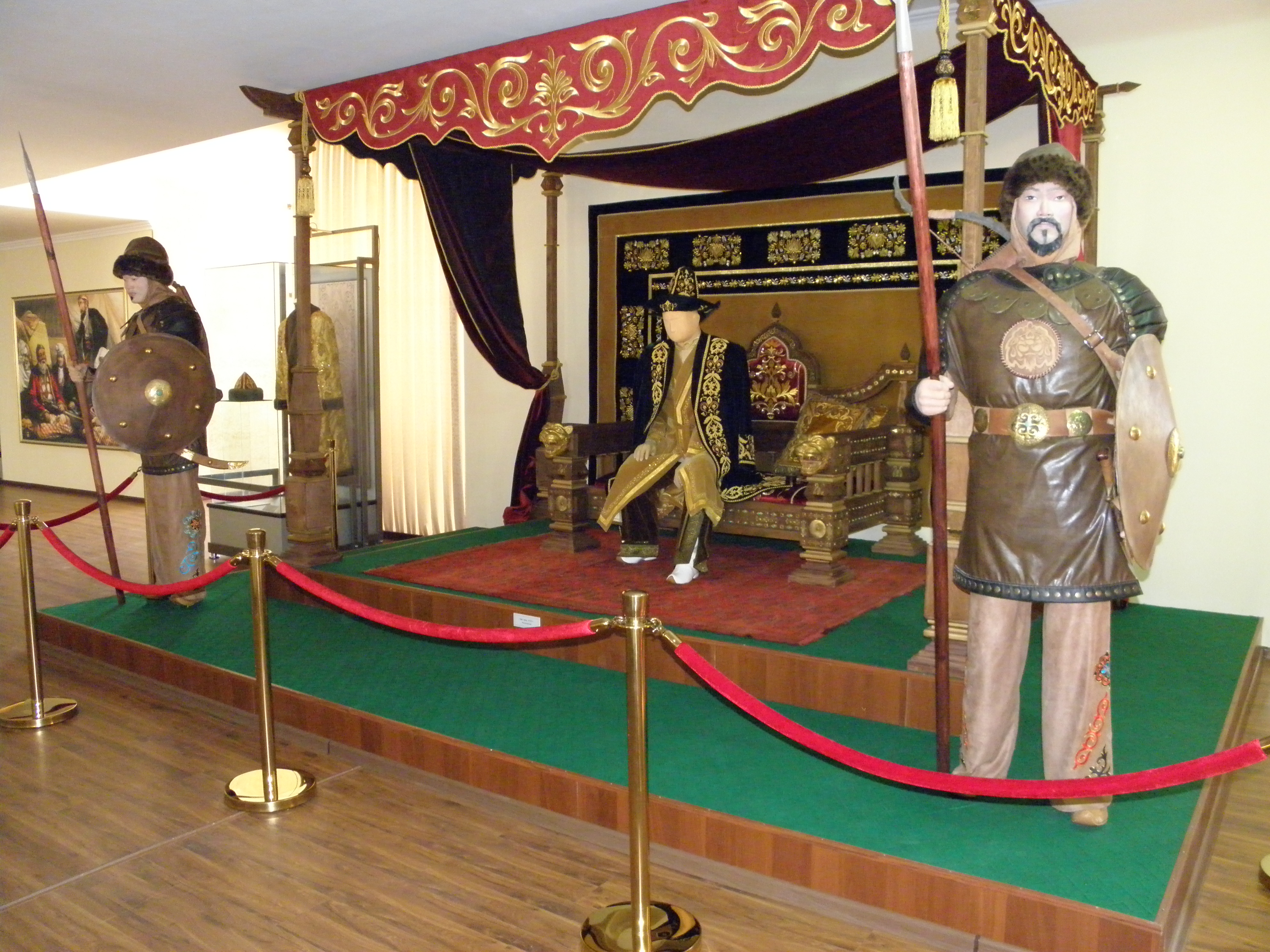 ХанТағы